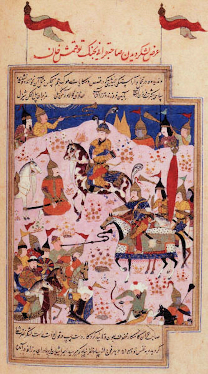 Timur (Tamerlane) and his troops persuading him to launch a war against khan Tokhtamysh. 1533